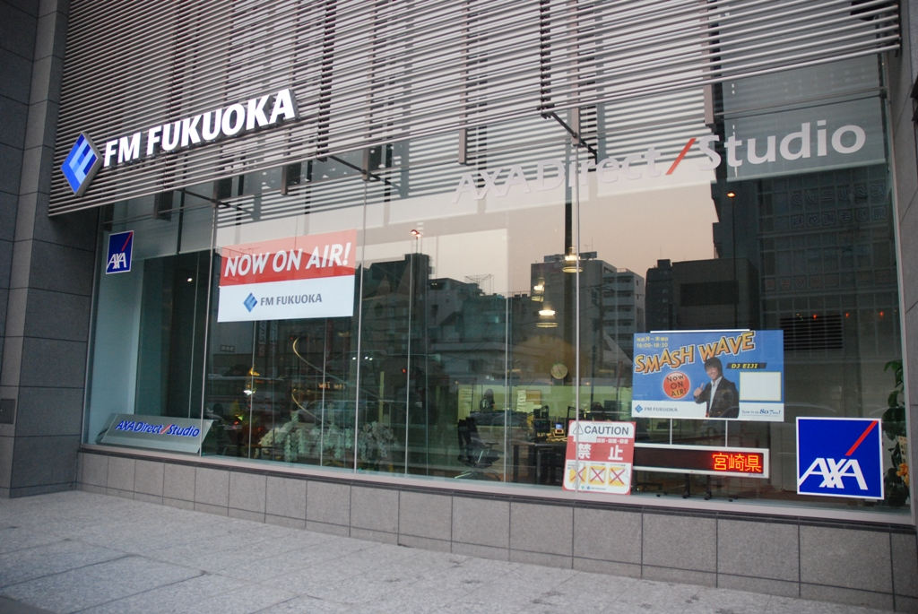 FM FUKUOKA's AXA Direct Studio, in Fukuoka, Japan. Picture taken by myself, on November 26 2008.